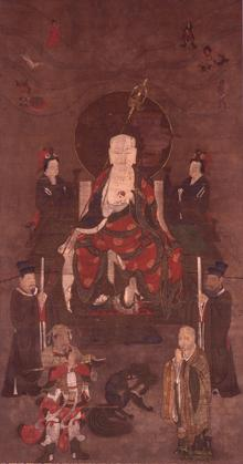 Jizo Bosatsu, Hofukuji, Soja, kept at Okayama Prefectural Museum, Okayama, Okayama, Japan